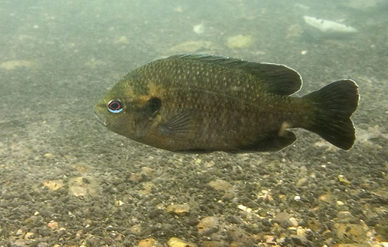 Redspotted sunfish (Lepomis miniatus). Photo taken SCUBA diving the Comal River, Texas. Canon 300D, Speedlite 580EX, EWA Marine case